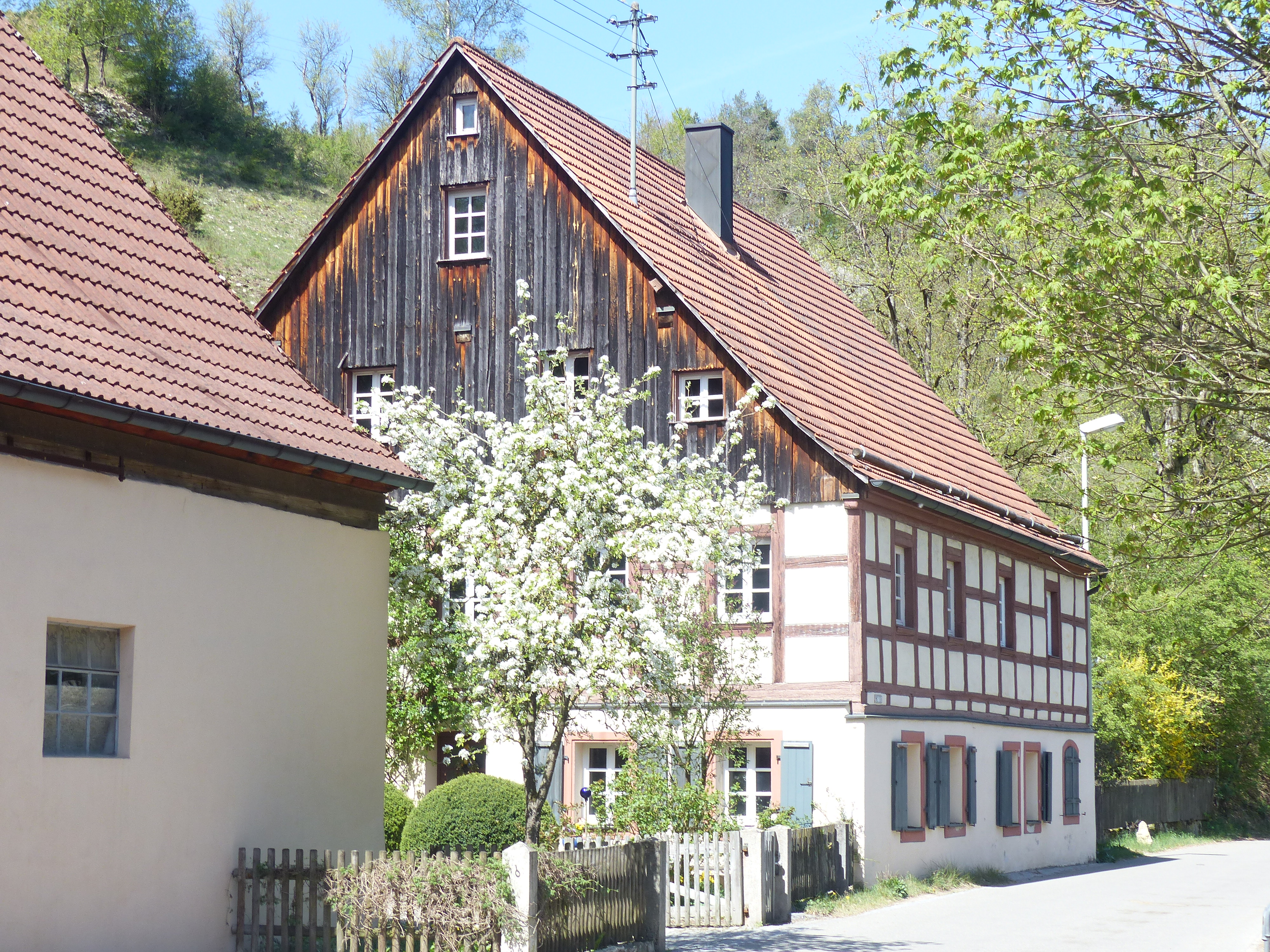 A farmhouse in the village Großenohe, a district of the municipality Hiltpoltstein